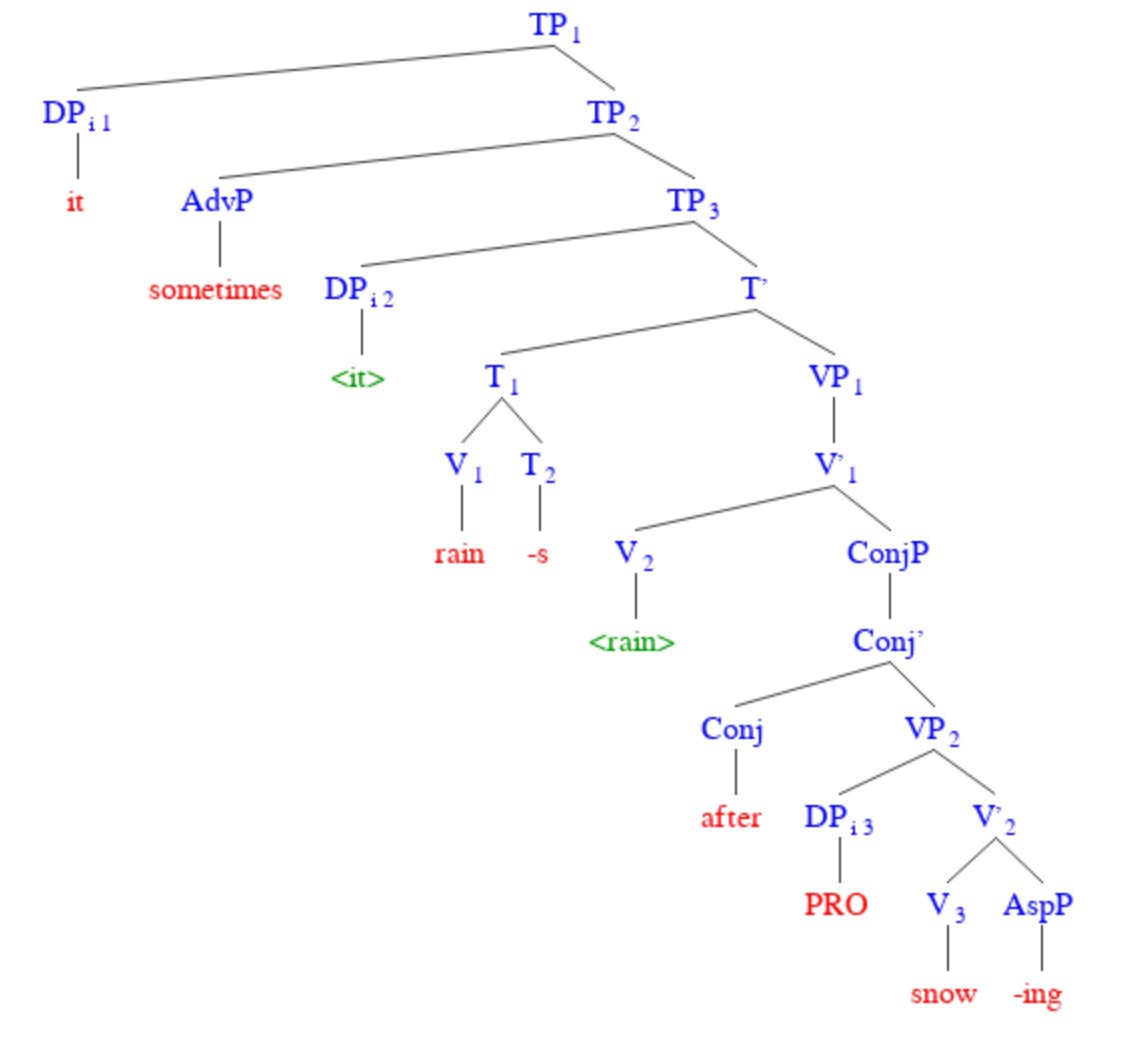 Syntax phrase structure tree. Sentence reads, "It sometimes rains after snowing." Used as an example of Chomsky's "Weather It" analysis. The website was used for drawing the syntax phrase structure tree.